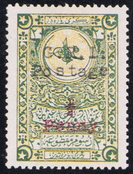 Stamp of British post in Uzunada (British Occupation), Ottoman Empire, 1916, a Turkish fiscal stamp, 20pa green & buff, surcharged ½d, SG #1.